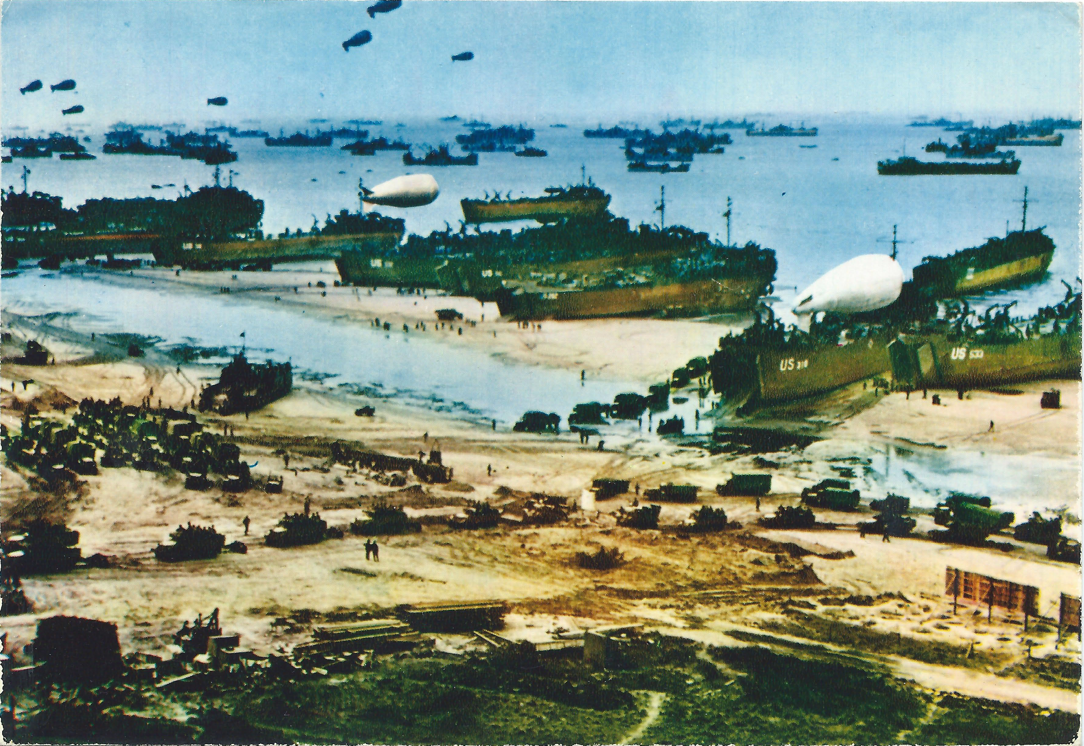 Probably on June 9, see File:Normandy Invasion, June 1944.jpg